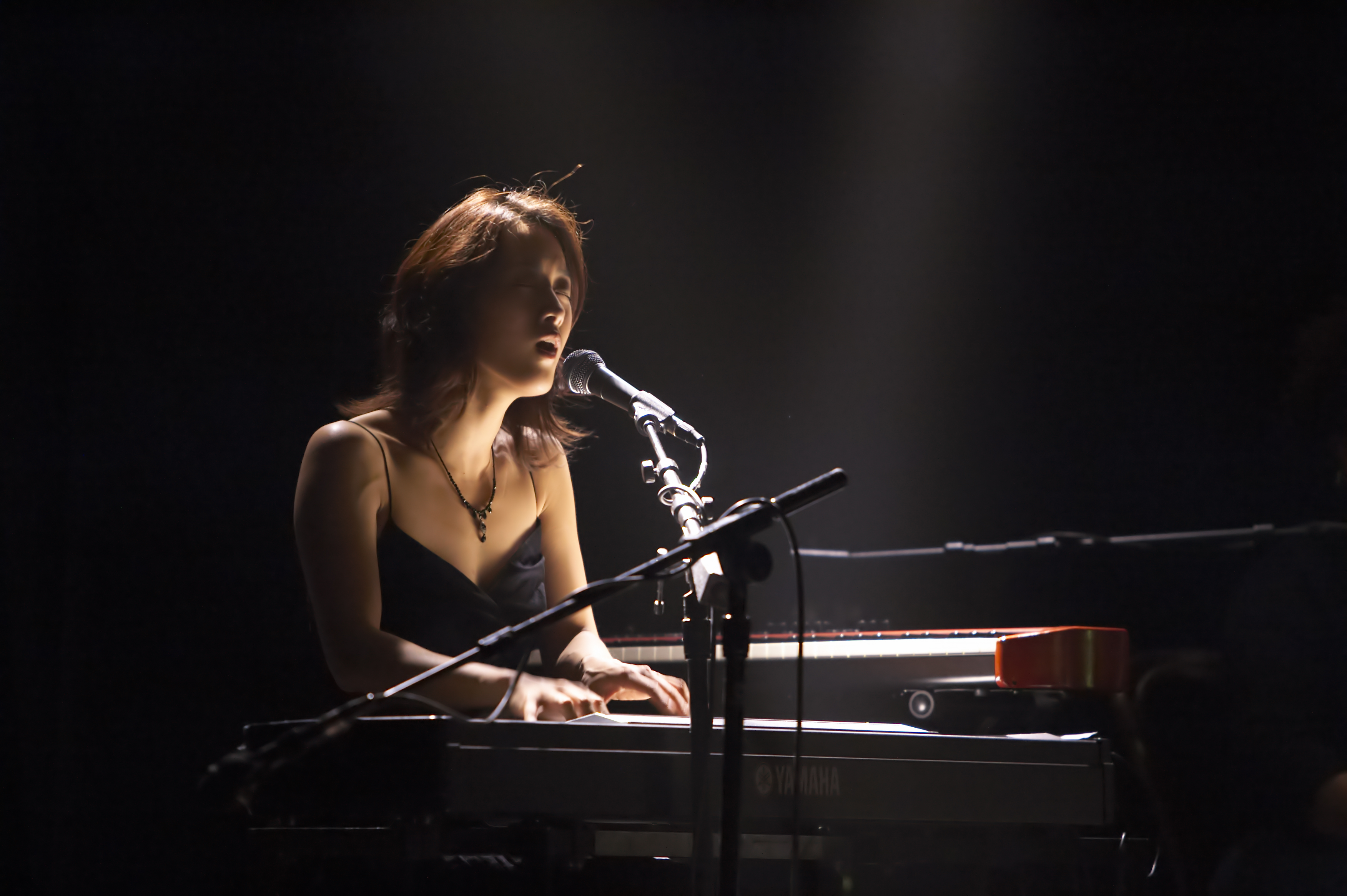 Vienna Teng performing at the Independent in San Francisco, California.